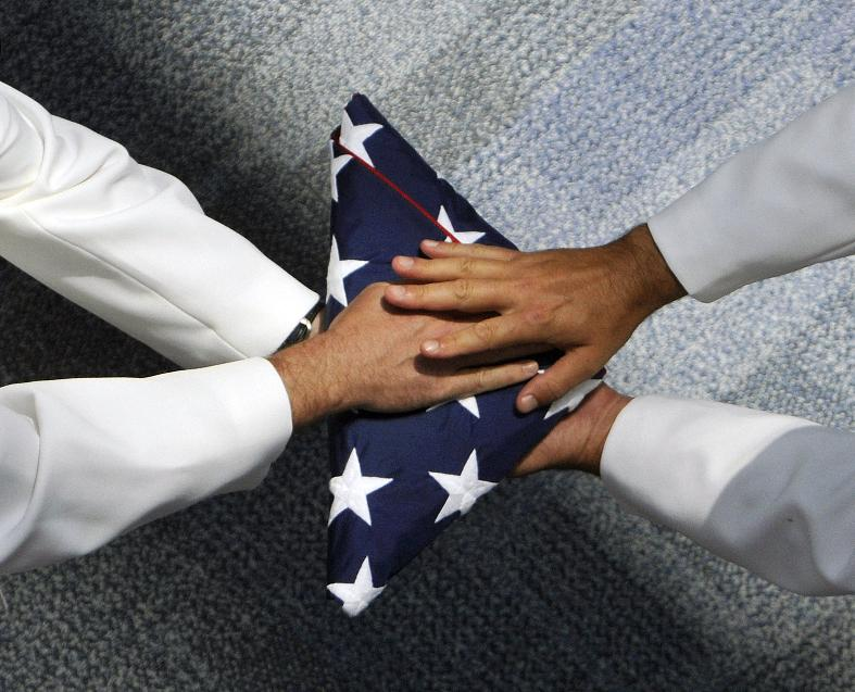 PENSACOLA, Fla. (June 20, 2008) Two officers from the Center for Information Dominance (CID) Corry Station participate in a traditional "passing of the flag" ceremony for the retirement ceremony for CID Corry Station Director of Training Lt. Cmdr. Darrel Bishop at the National Museum of Naval Aviation atrium on board Naval Air Station Pensacola. U.S. Navy photo by Gary Nichols (Released)